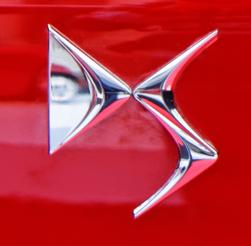 This file has been created starting from another Commons file. The original file was create by the user Thesupermat and it's visibile in the following link: Instead the file shown here has been created by the user Luc106, who has cutted all the surrounding areas of the original picture in order to show the DS logo in foreground. The licence is the same as the original file.